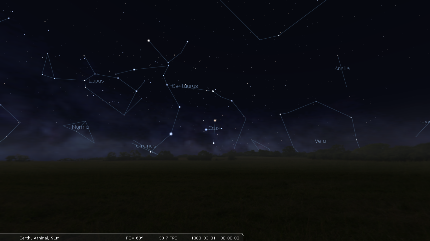 Crux as seen from Athens in 1000 BC. Simulated view, screenshot from Stellarium programme.